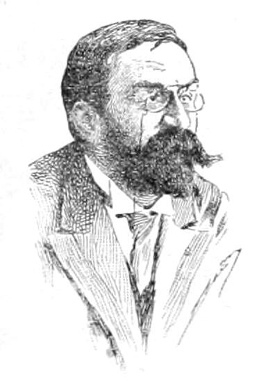 Camille Jullian